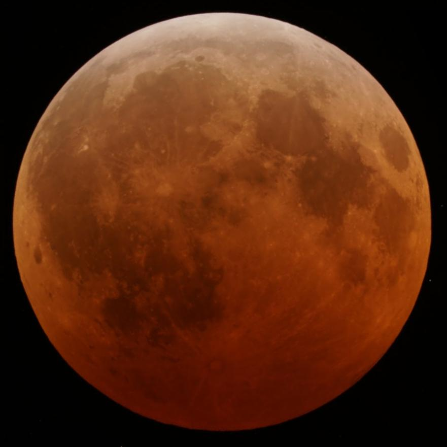 Lunar eclipse of 2010 December 21 Near Greatest Eclipse: 12.11am from San Jose, CA, USA